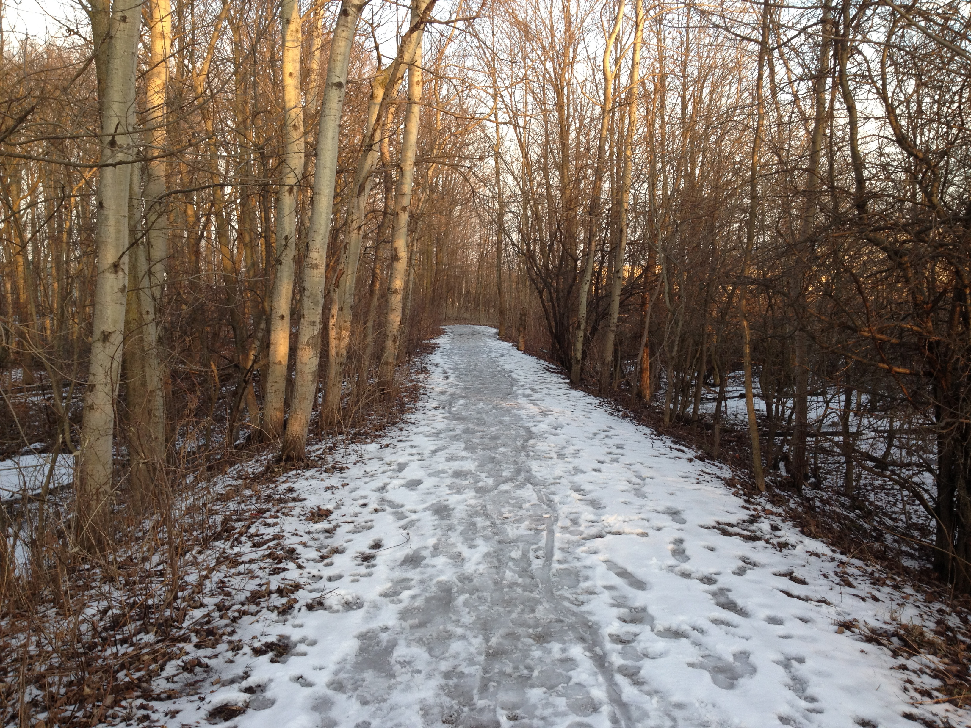 The image shows the berm of the former Toronto Eastern Railway in Courtice, Ontario as it passes between Trulls Road and Courtice Road, just south of Nash Road. The picture is taken looking east-south-east, towards Bowmanville. The berm is about 2 feet high in this section, which is now in a forested park. The berm appears to end abruptly, but this is due to the walking path moving off the berm to the left - brush growth obscures the berm beyond that point. The tan-colored Courtice Community Center can just be made out through the trees on the right of the berm. The line passed along what is now its driveway. The Toronto Eastern was one of many high-speed "interurban" railways in the Toronto area being planned in the early part of the 20th Century. Construction on the Toronto Eastern started and stopped several times, before the line was eventually pulled up in 1927, shortly after completion. It never went into paid operation.